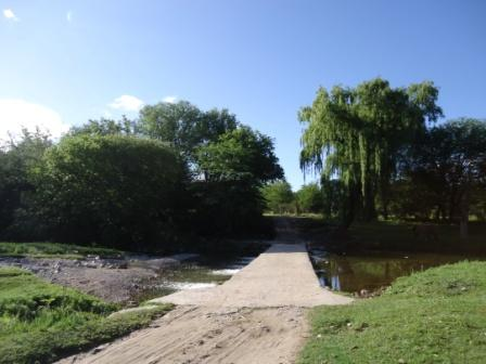 Camino de la comuna que cruza el Río Grande de Punilla